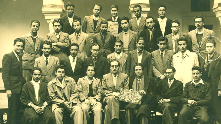 Photo de promotion au Collège Sadiki